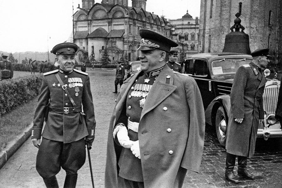 Soviet Victory Parade on Red Square